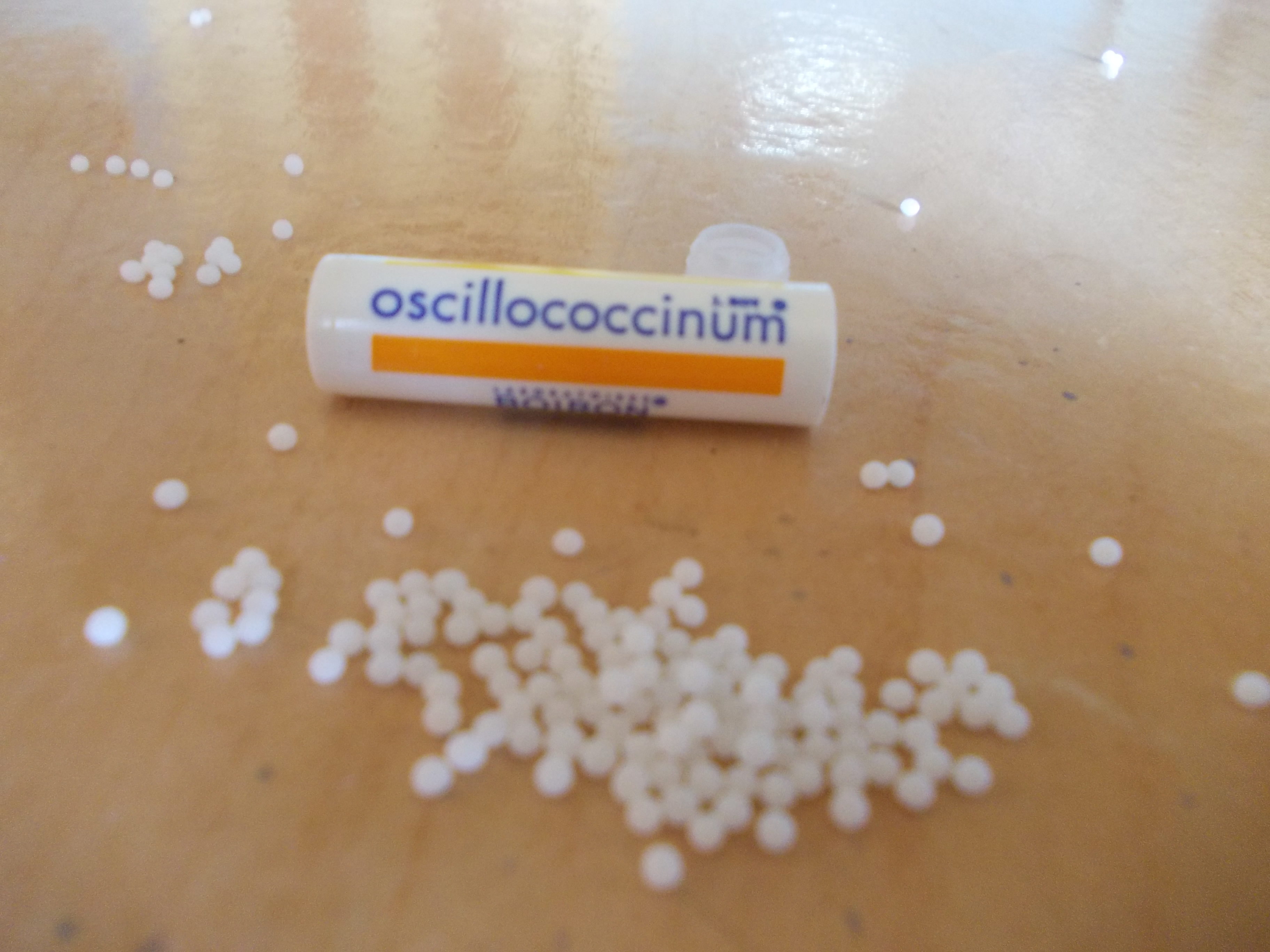 Ambalaj de oscillococcinum